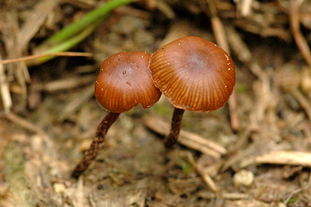 Psilocybe montana from Commanster, Belgium. The determination of the species shown in this picture has been verified.